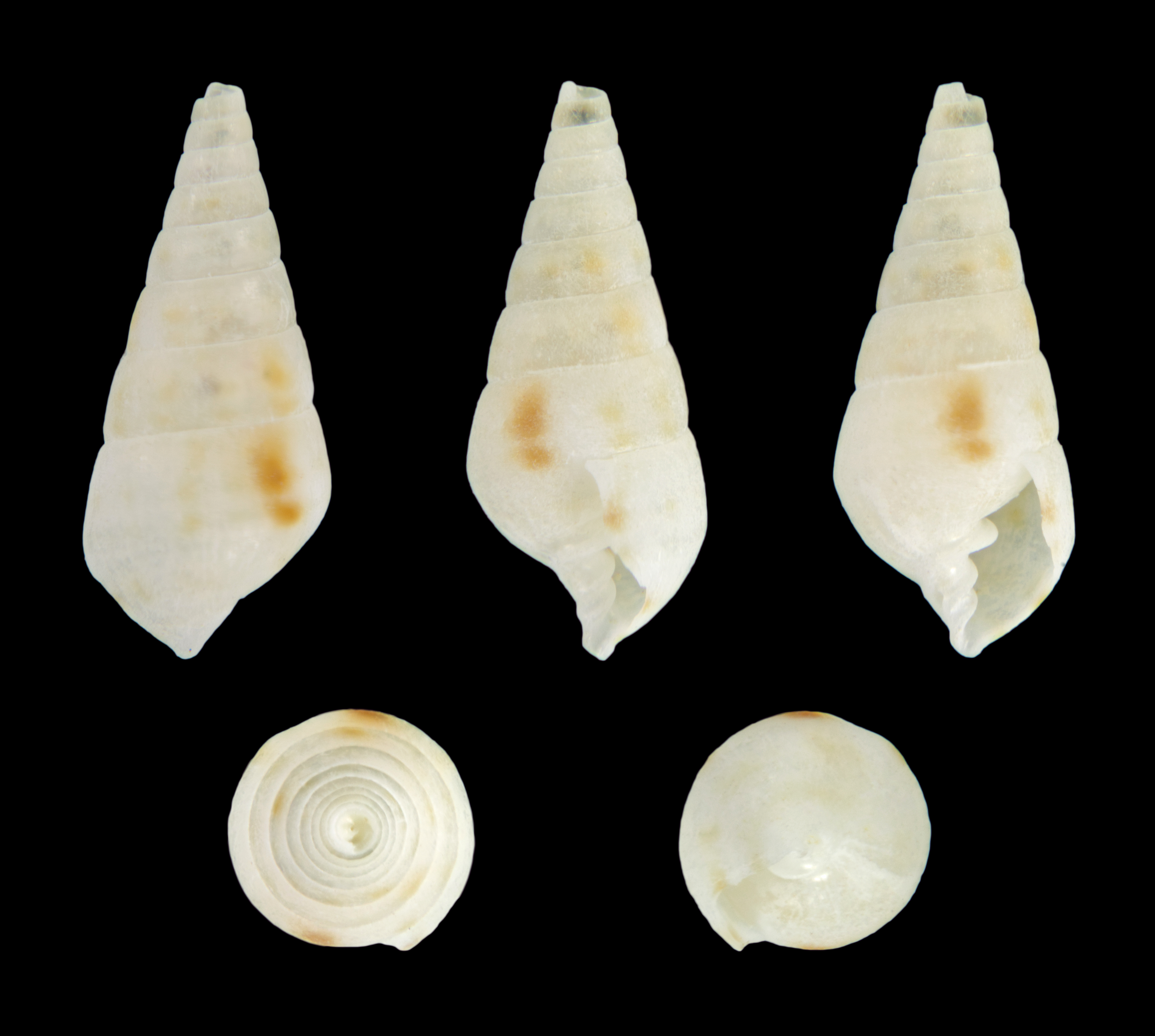 Pyramidella maculosa Lamarck, 1822, Sulcate Pyram, juvenile, length 0.9 cm; Originating from Trou-aux-Biches, Mauritius; Shell of own collection, therefore not geocoded.